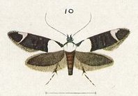 Plate XXXI The butterflies & moths of New Zealand Fig 10. Trachypepla euryleucota (male)